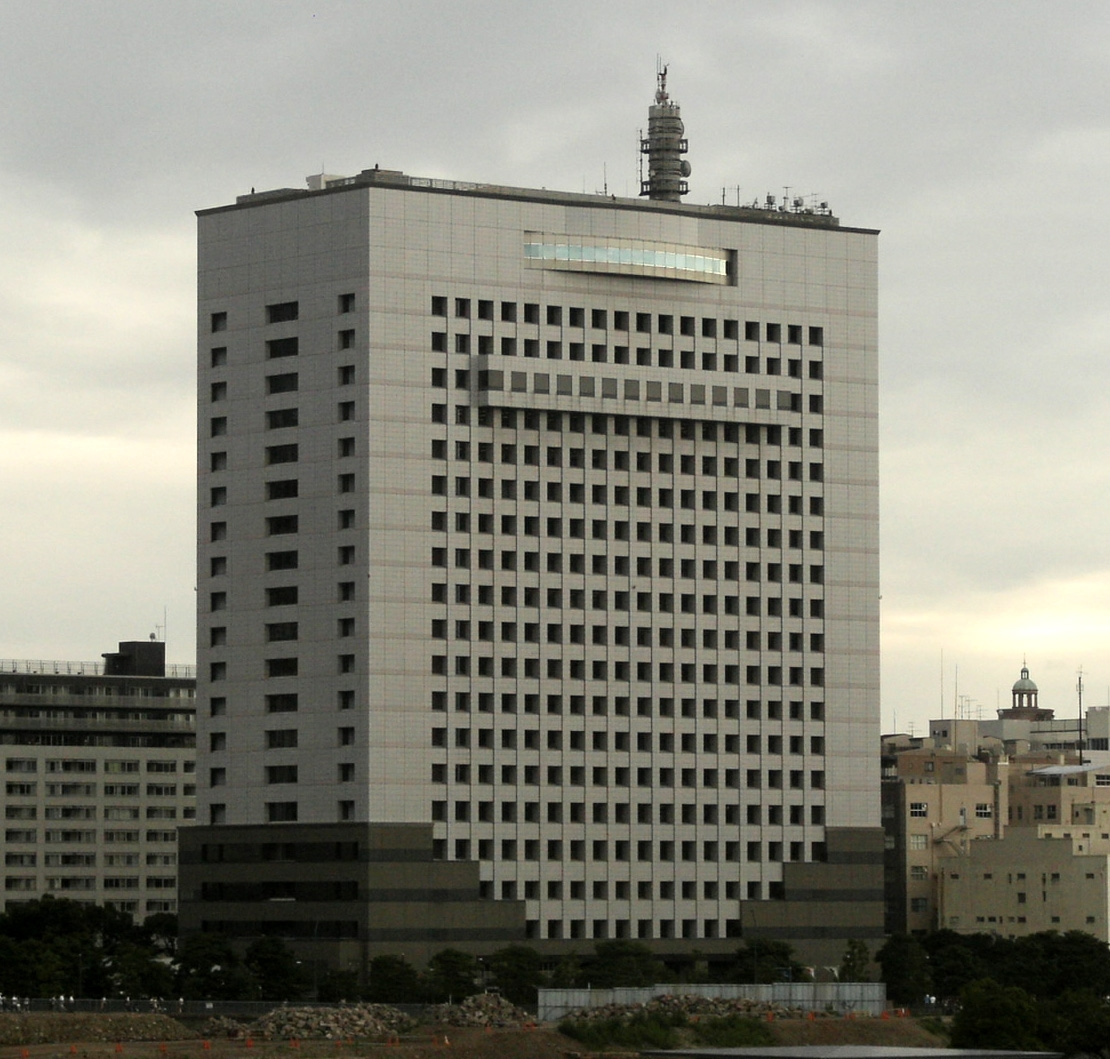 Public office KANAGAWA_PREFECTURAL_POLICE Japan